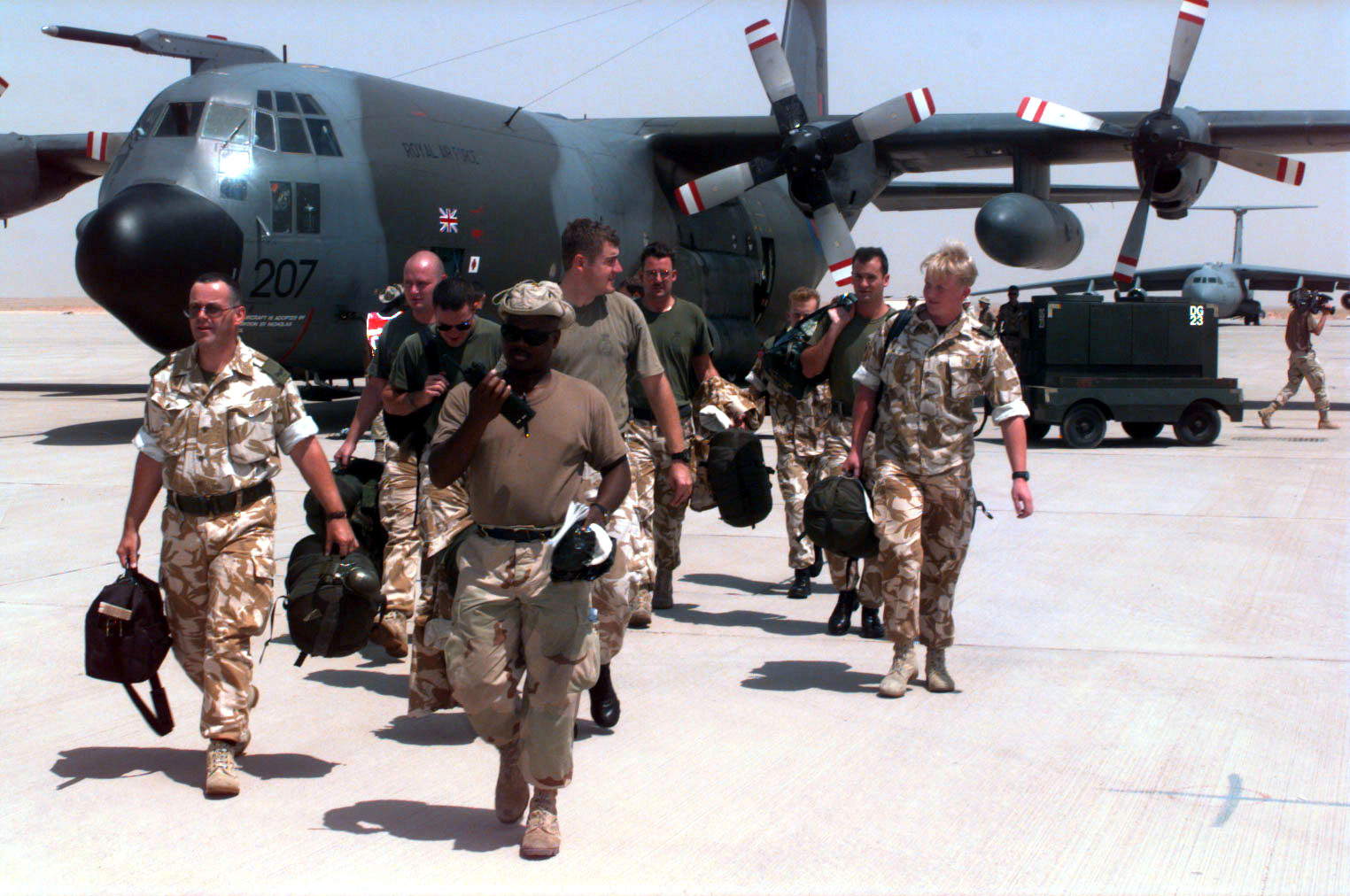 U.S. Air Force Staff Sgt. Darryl Martin, a Passenger Representative with the 615 Aerial Port Squadron, escorts British communications personnel from a British C-130 on the ramp to the receiving area at Prince Sultan Air Base, Al Kharj, Saudi Arabia, on Aug. 16, 1996. The communications team, deployed from Tactical Communications Wing, RAF Brize Norton, United Kingdom, will set up ground communications for British personnel that will soon be arriving to support the move of RAF Tornadoes conducting Operation Southern Watch to Al Kharj. Personnel, aircraft, and equipment are being moved from bases in Dhahran and Riyadh to the remote desert air base to reduce their vulnerability to terrorist attack. Southern Watch is the coalition enforcement of the no-fly-zone over Southern Iraq. Martin is deployed from Travis Air Force Base, Calif.